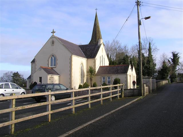 St Mary's RC Church, Knockmoyle It is located along the Knockmoyle Road